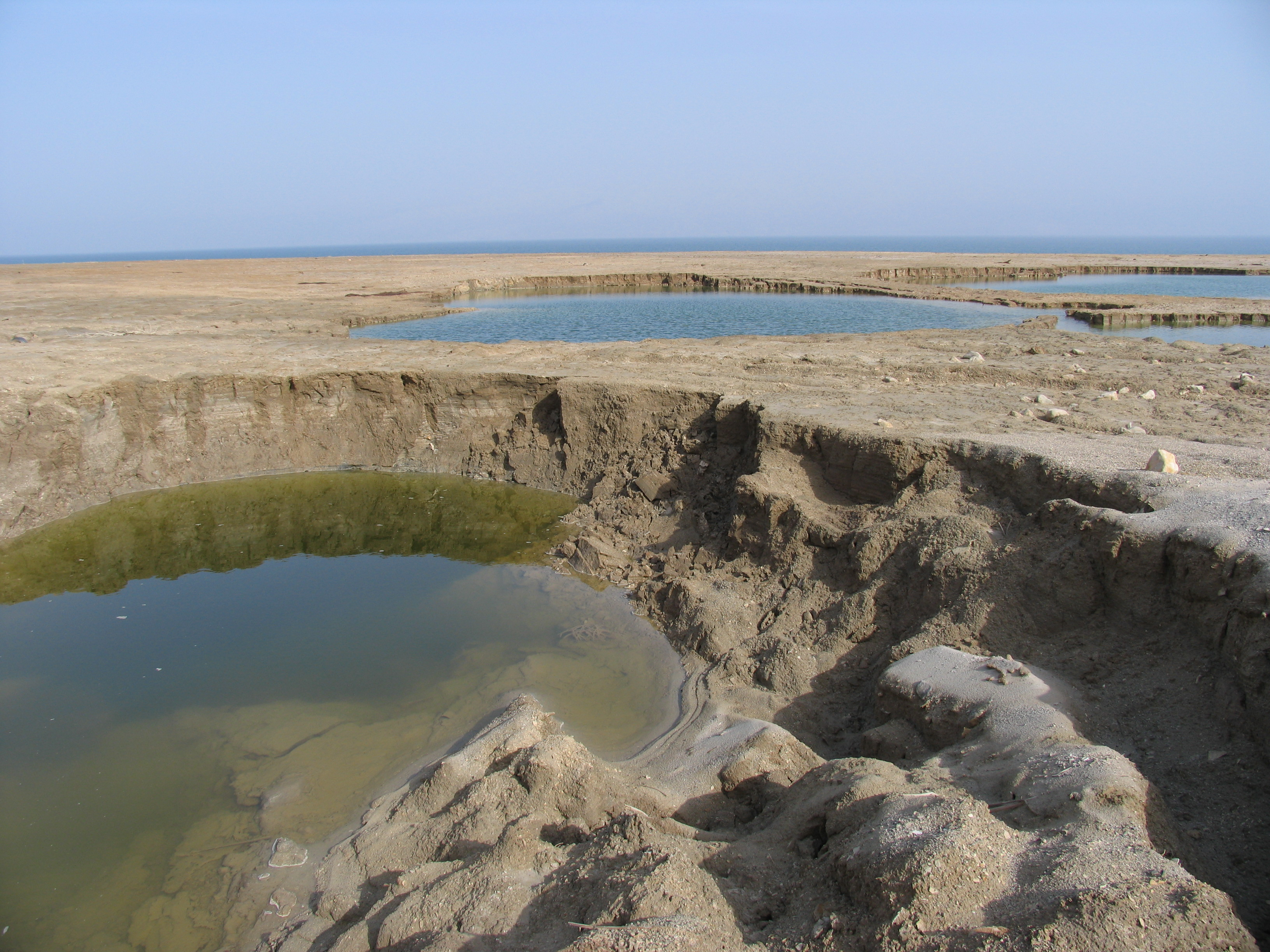 Sinkholes at Mineral Beach, Dead Sea, West Bank.